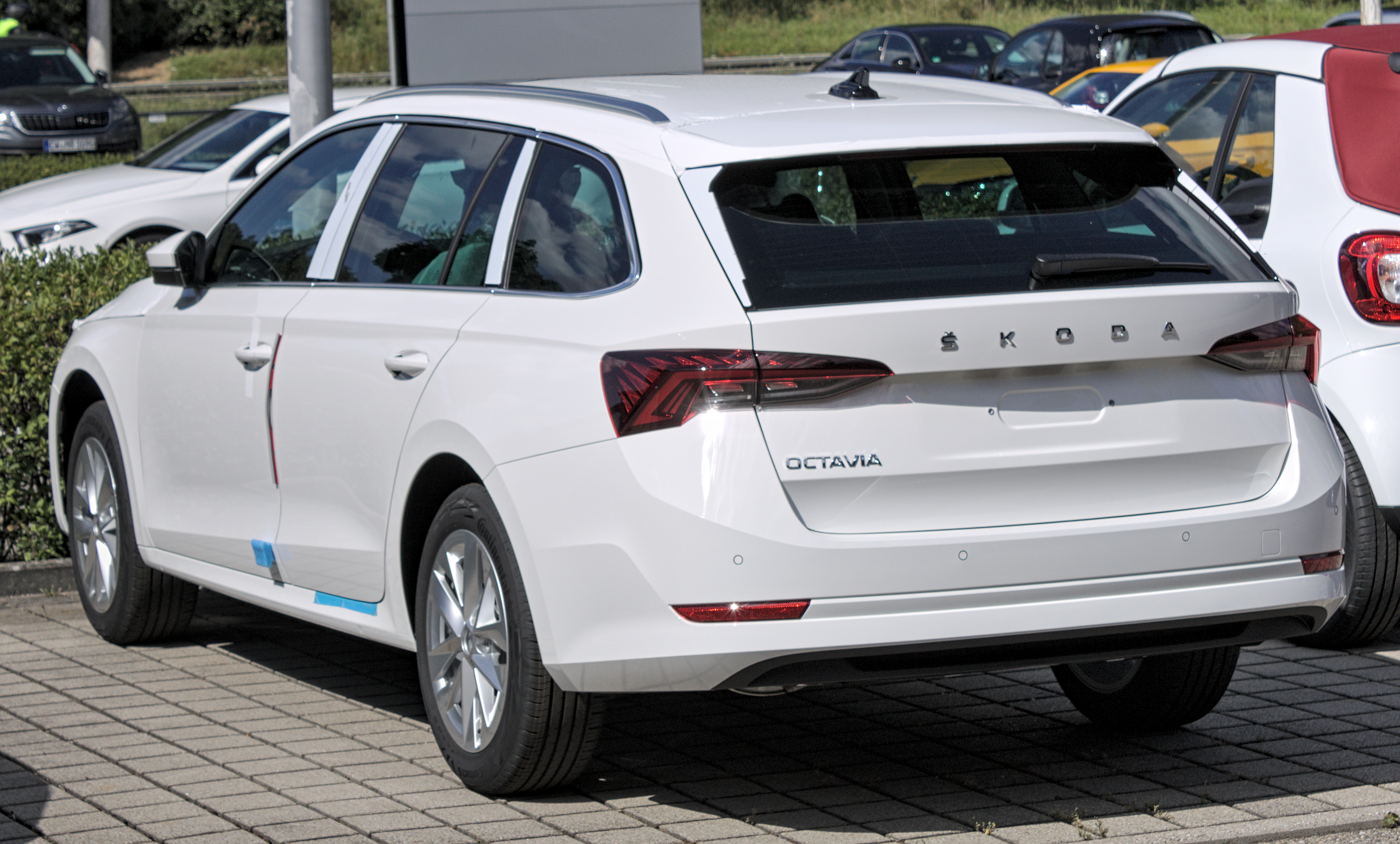 Skoda_Octavia_IV_Combi in Nagold